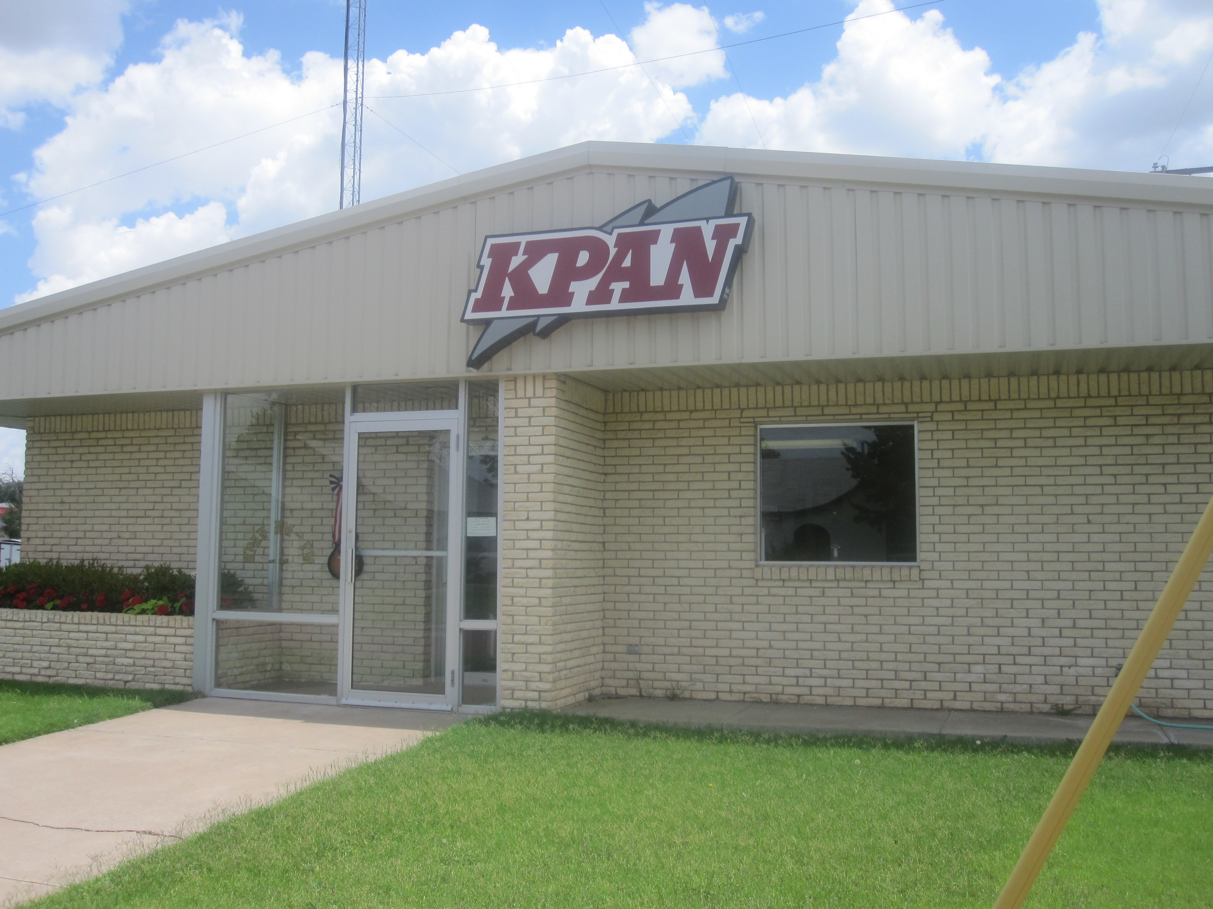 I took photo with Canon camera in Hereford, TX.